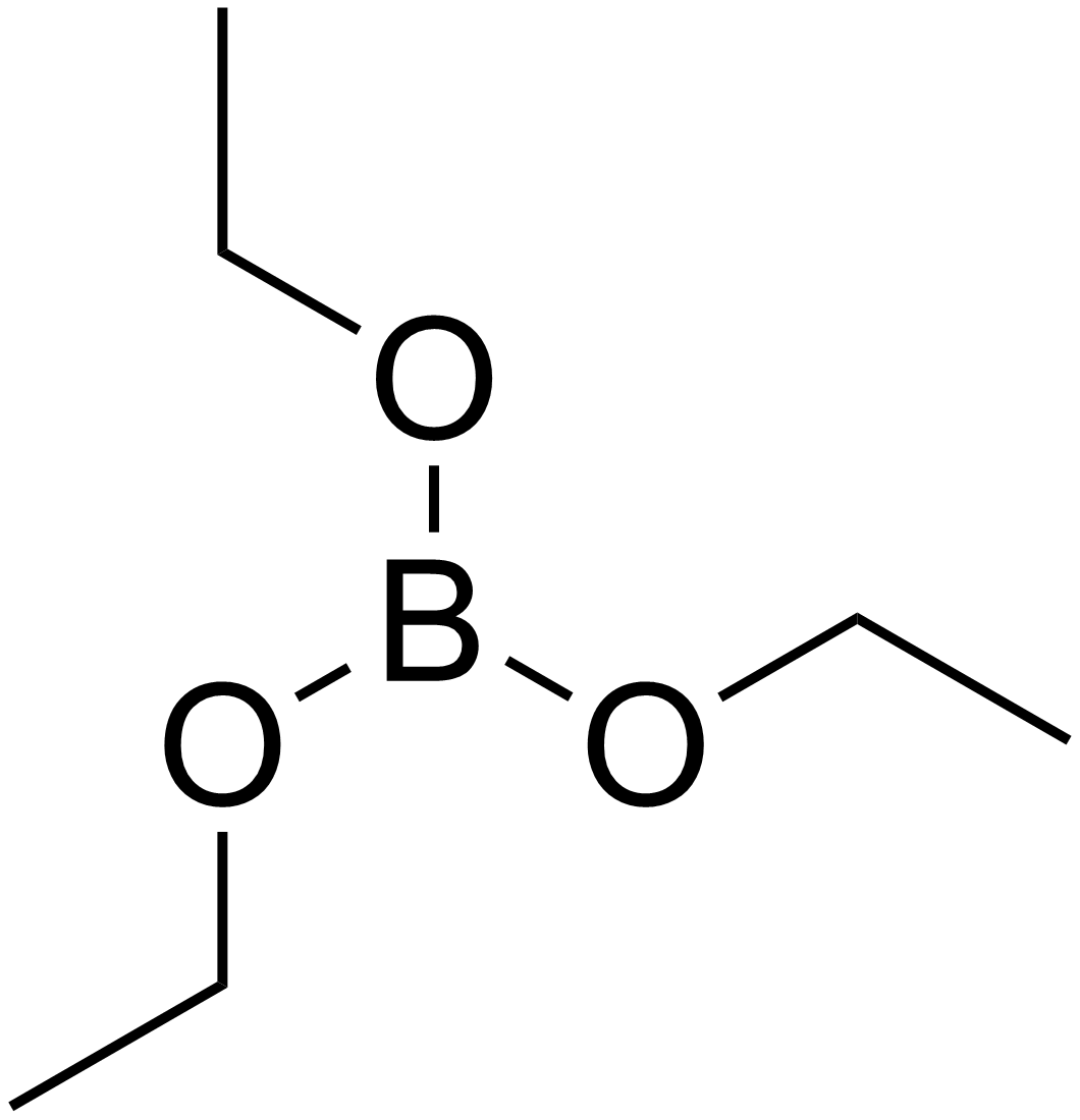 chemical structure of triethyl borate